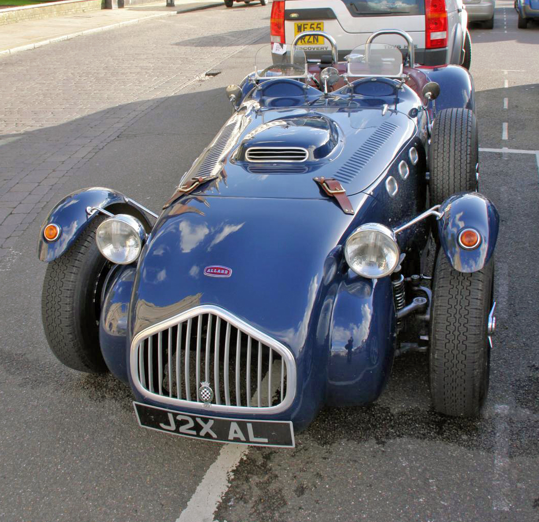 Canadian-based Allard Motor Works is building the Allard J2X MkII, a recreation that is sufficiently accurate for the official Allard registry to grant official numbering to the new cars, and is now being distributed across Europe. The original Allard J2X was built between 1951 and 1954 and used a range of American V8s, usually a Ford-Mercury Flathead (though Cadillac and Chrysler units were installed, too), coupled to a lightweight open-top body. Allard made just 83 of these original cars.